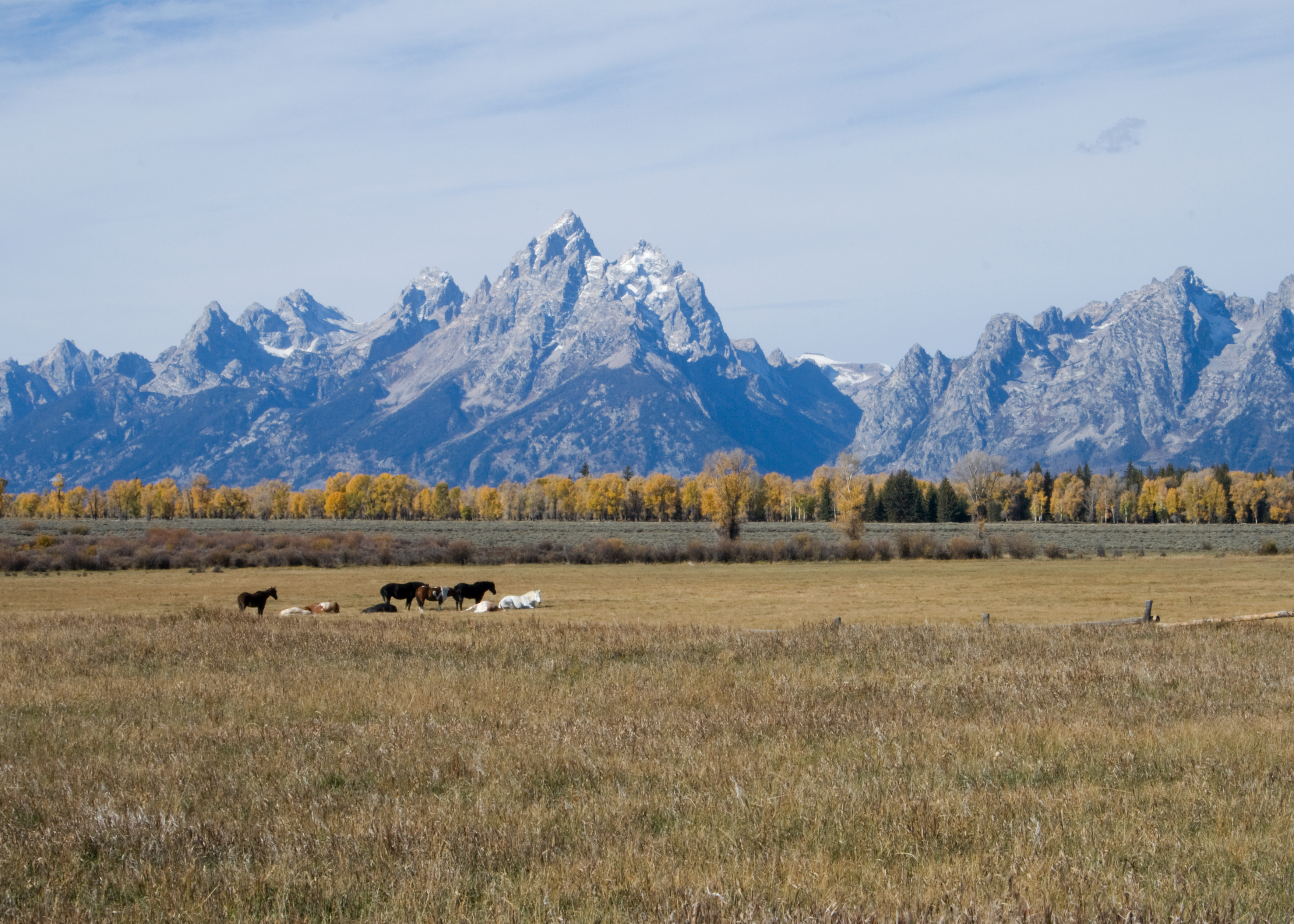 Horses in a dude ranch pature in Grand Teton National Park